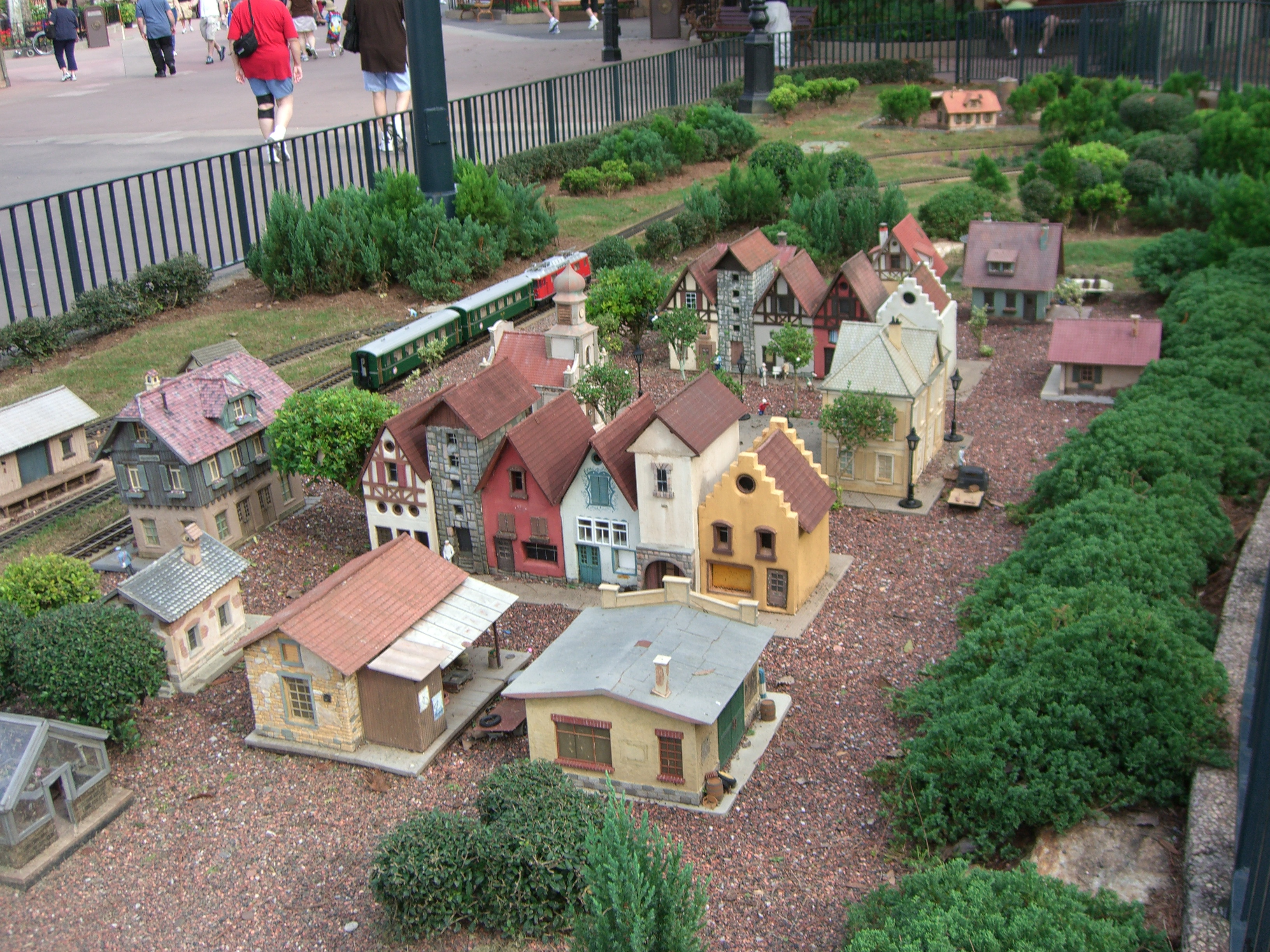 Miniature villiage and model railway at the Germany pavillion at Epcot.